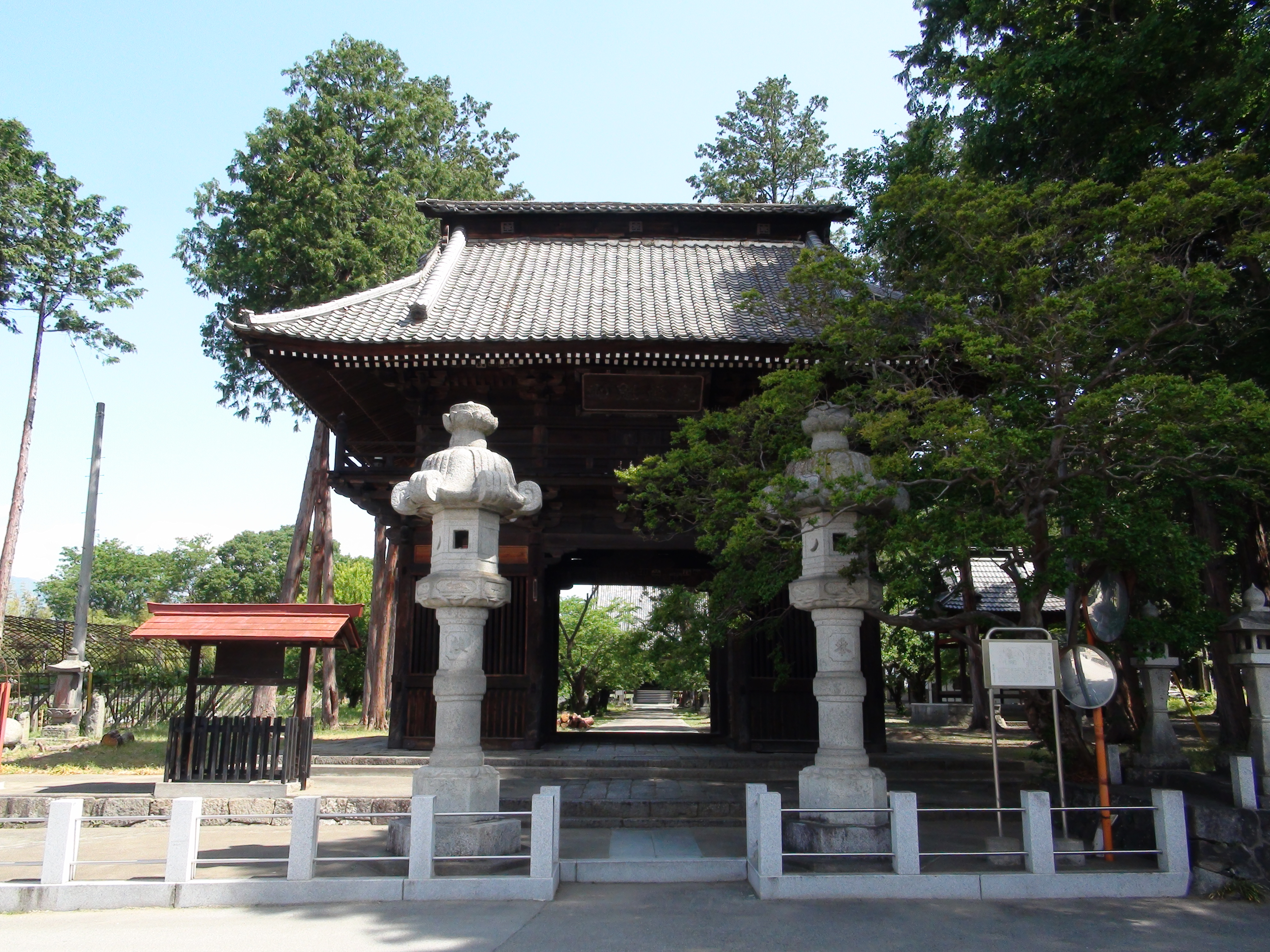 Main Gate of Risshou-ji Temple